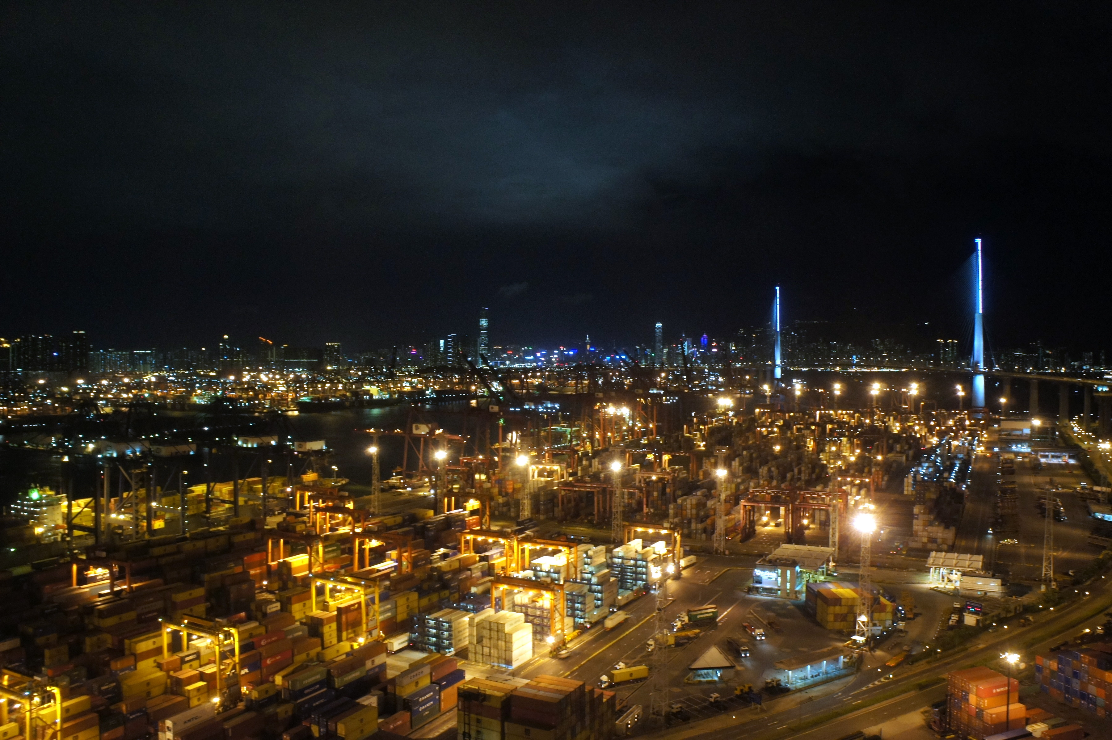 Terminal 9, Kwai Tsing Container Terminals, Tsing Yi, Hong Kong.